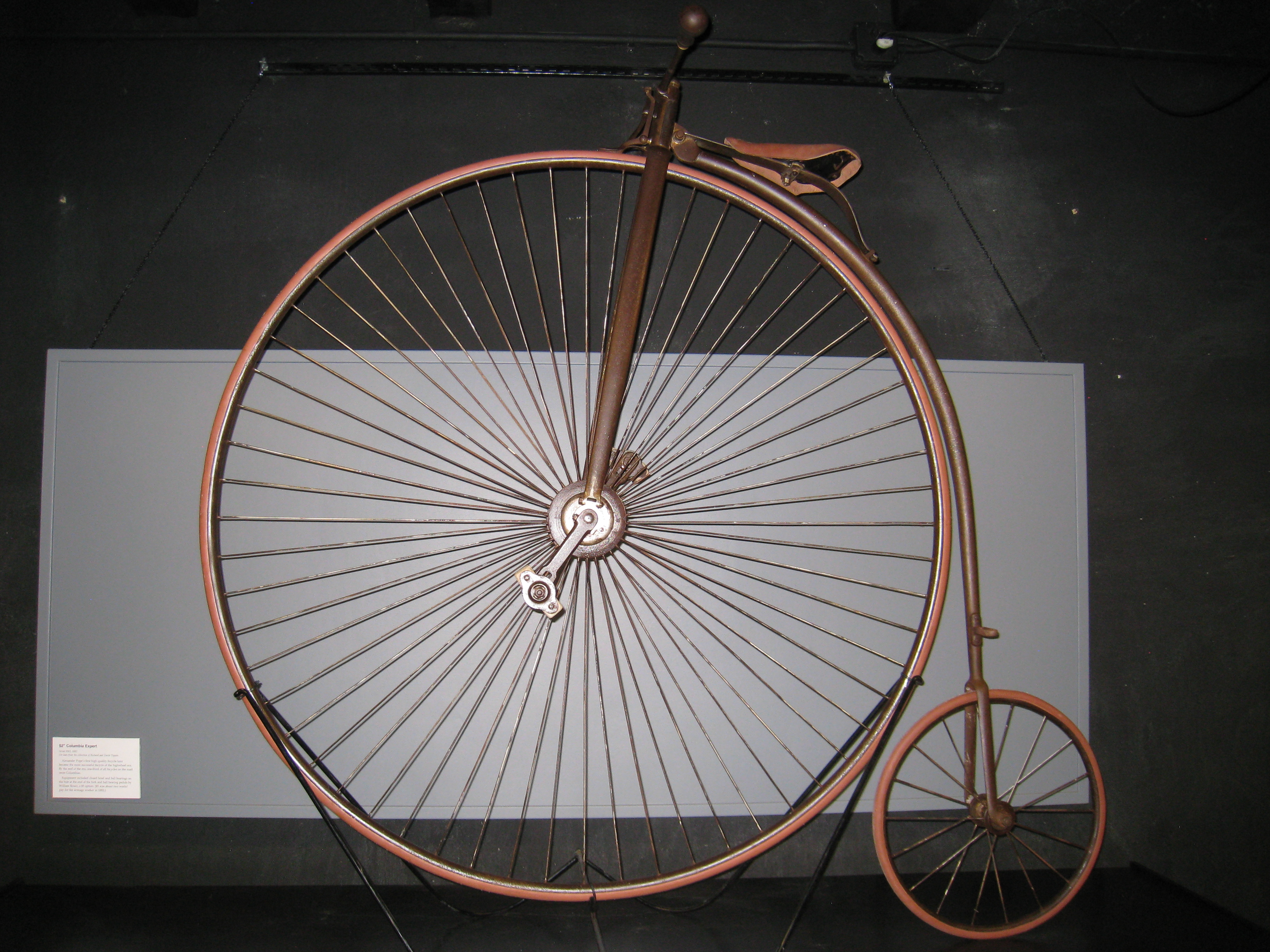 Columbia Expert, 52 inch, 1882.